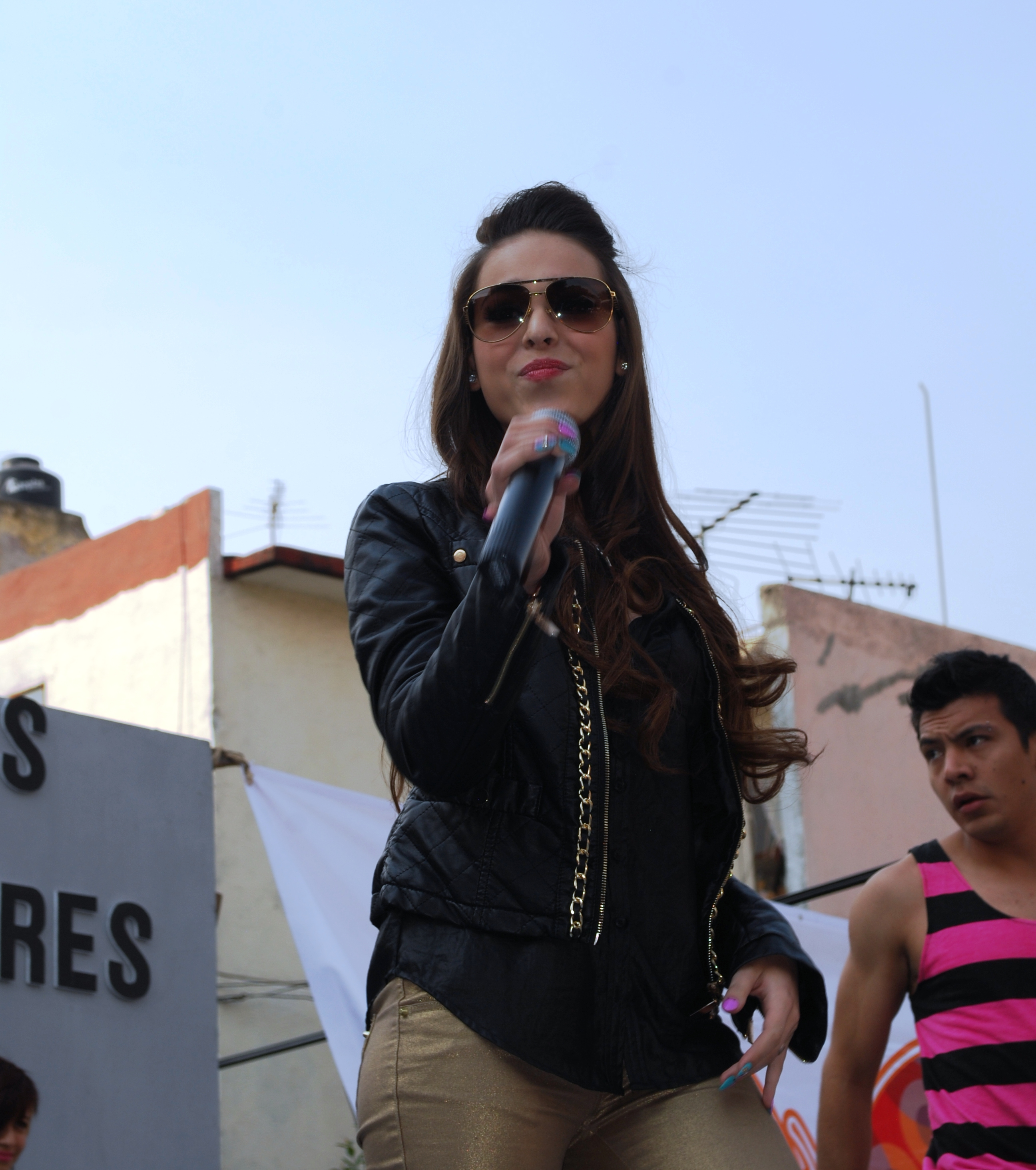 Danna Paola performing at Festival Día de Reyes Territorial Obrera Doctores in Mexico City